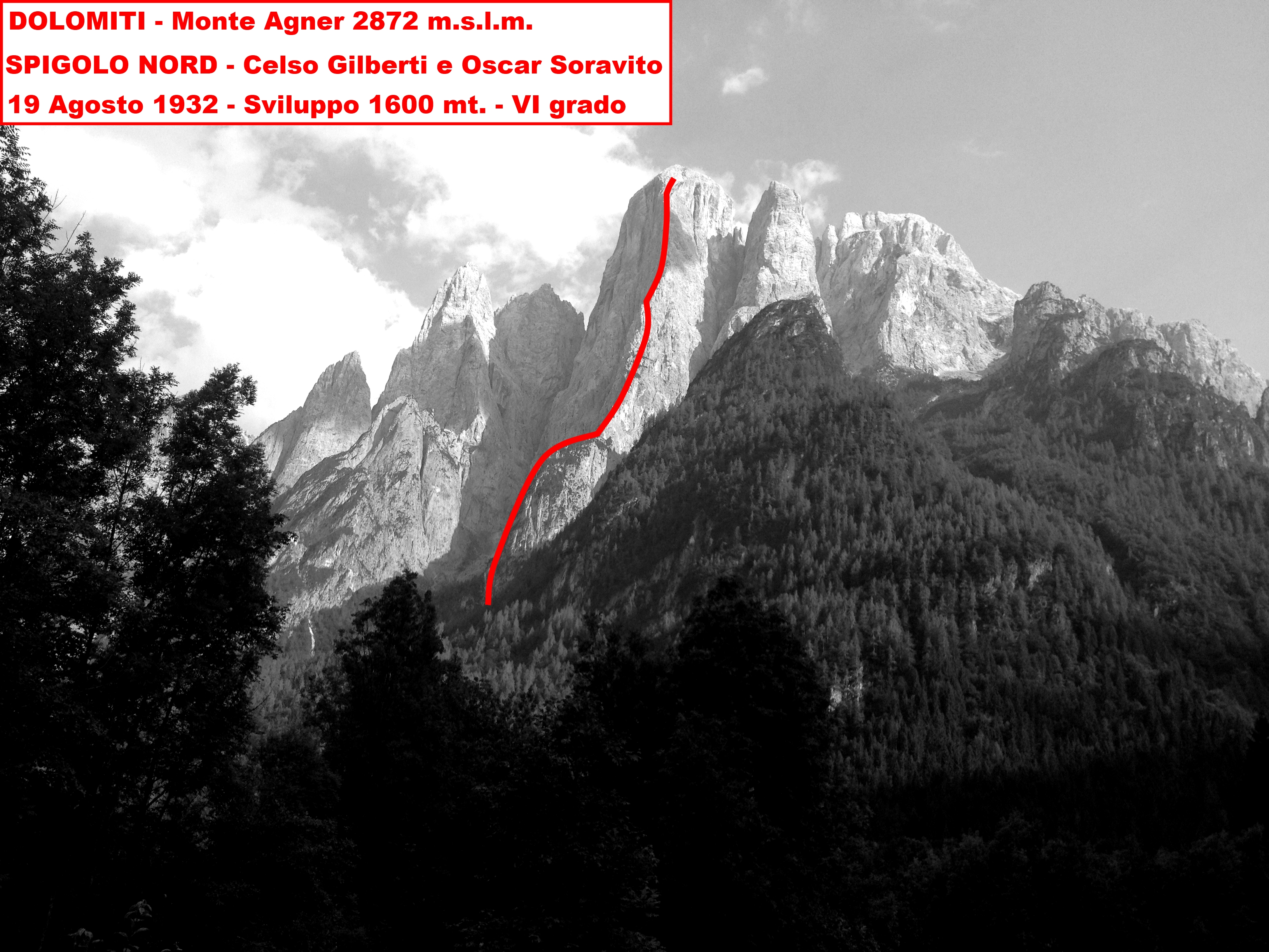 Vie alpinistiche storiche sulla Parete Nord dell'Agner